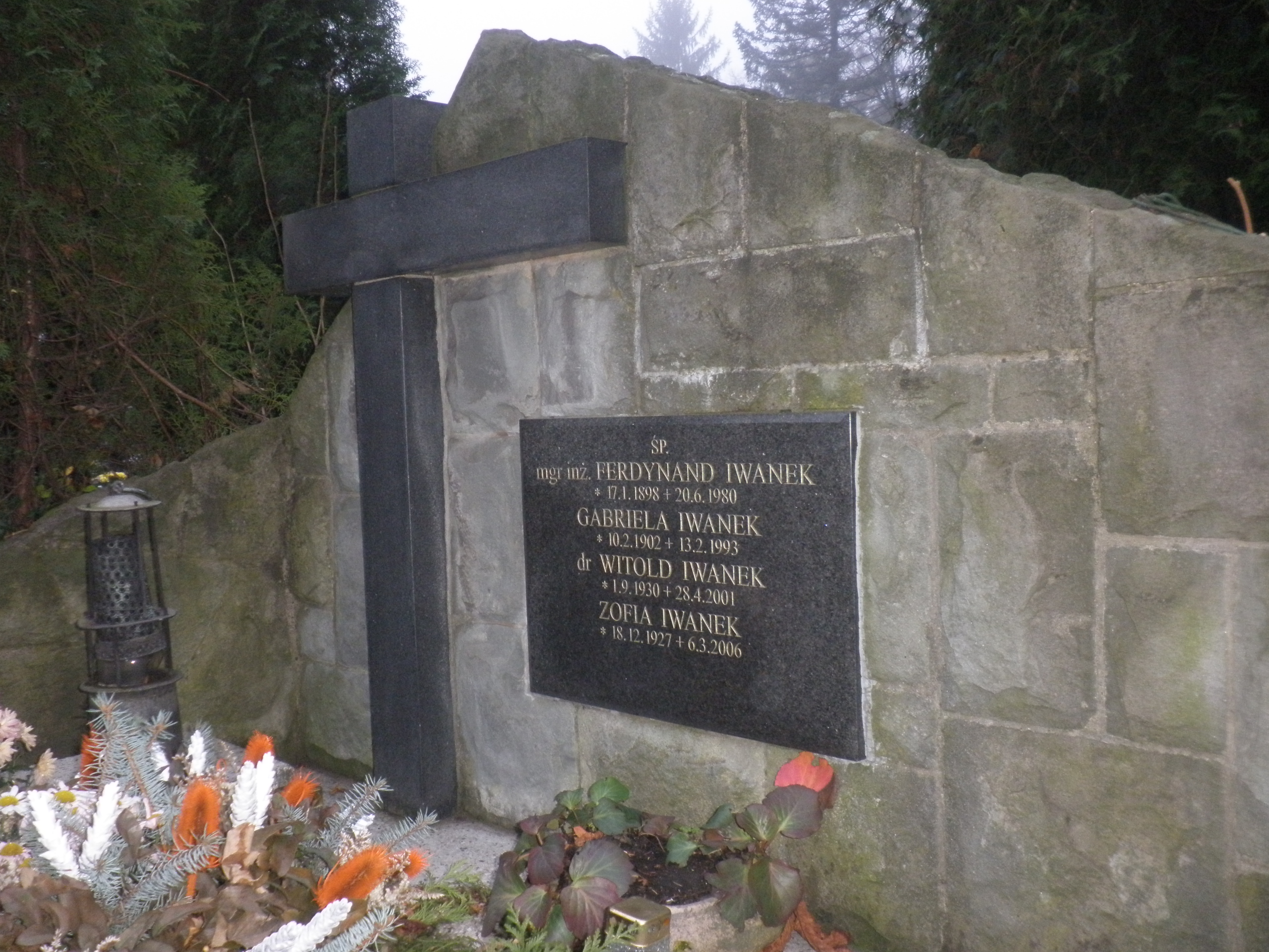 Communal Cemetery in Cieszyn / Teschen. Grave of historian Witold Iwanek.